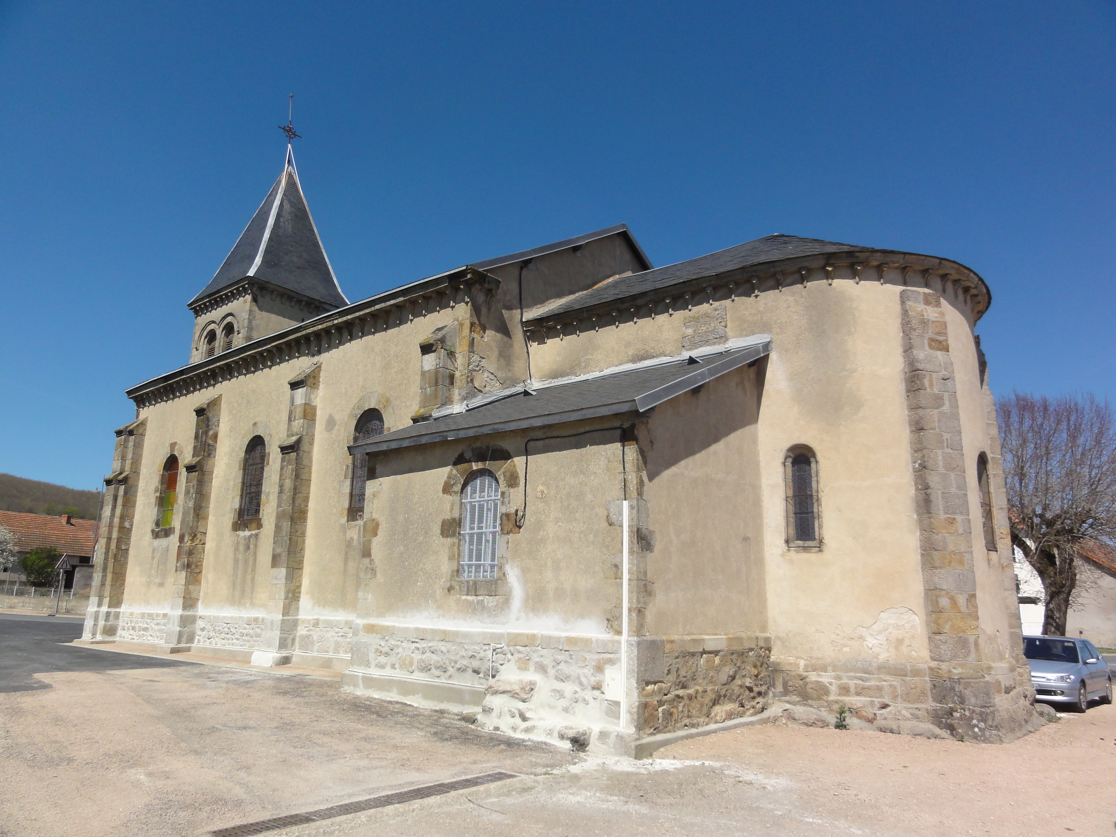 Youx (Puy-de-Dôme) église